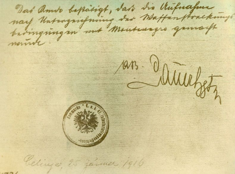 surrender of Montenegro during WW I